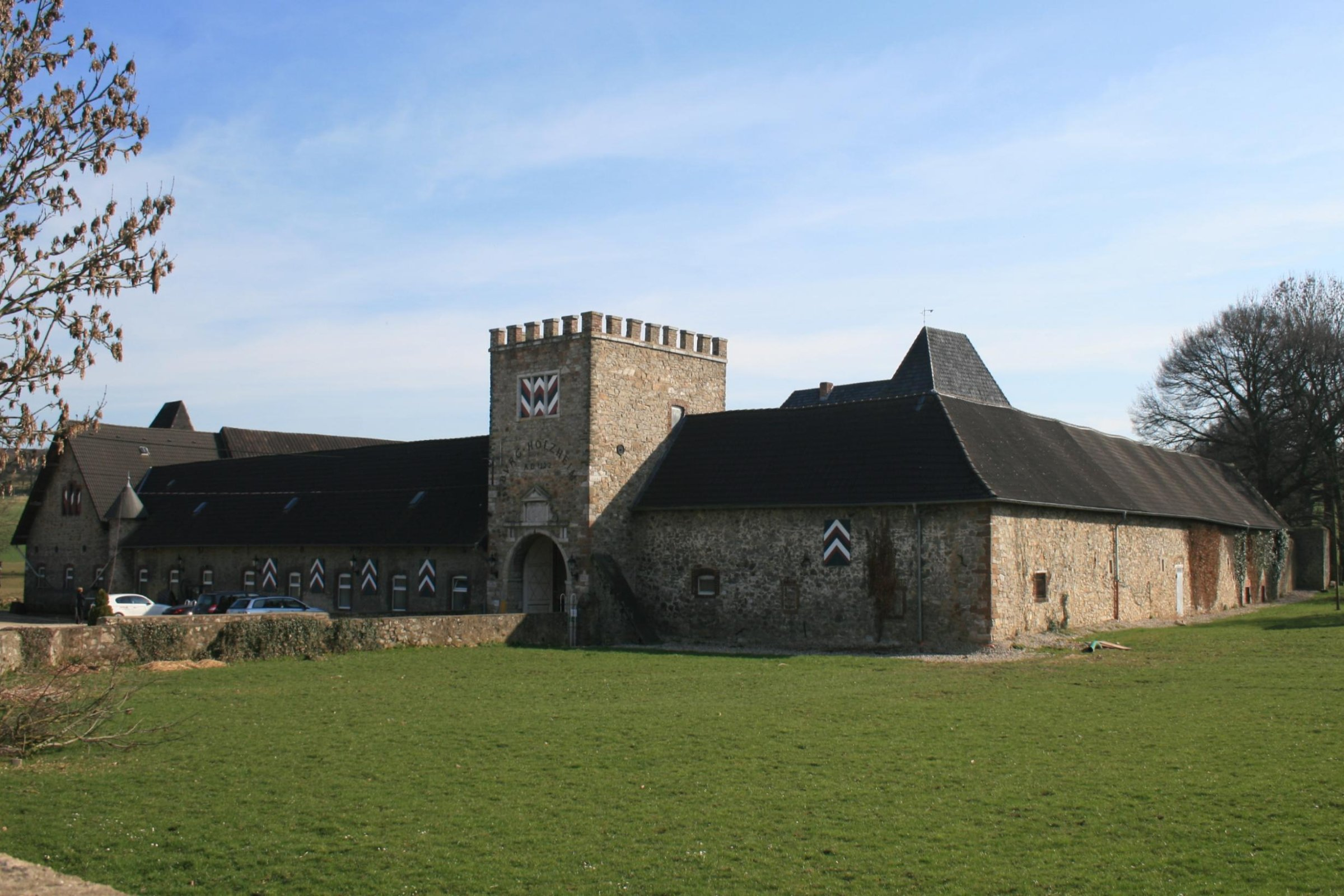 Cultural heritage monument No. 28 in Langerwehe